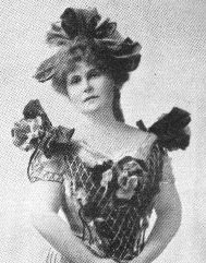 Marie Corelli, 1909 photo in the public domain